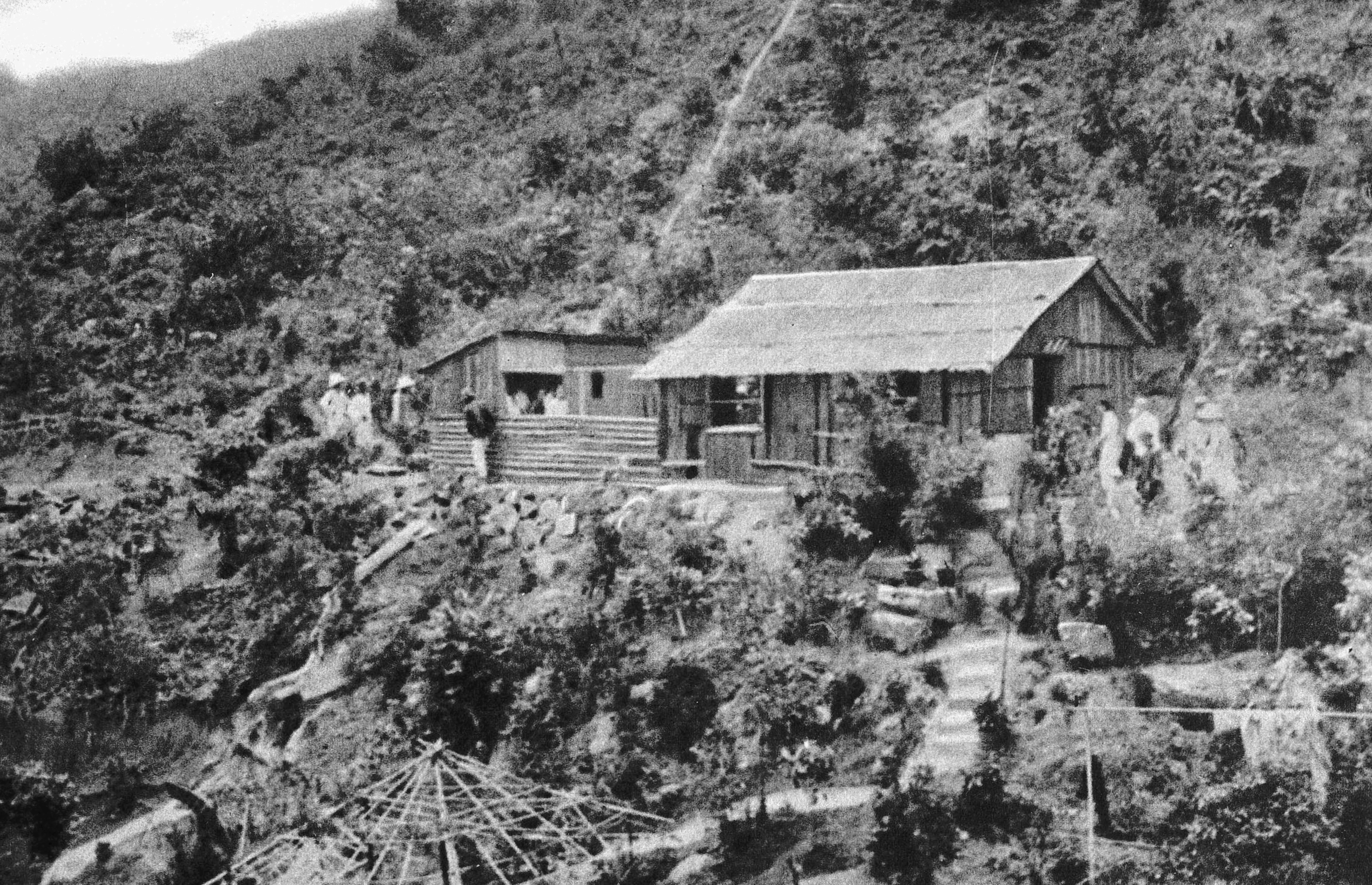 Hermits hut erected on the hillside above the Sai Lam temple in Shantin (New Territories, Hongkong) in spring 1932. A learnded monk pledged to withdraw from the world (閉關) for three years, and entered his retreat in May 1932